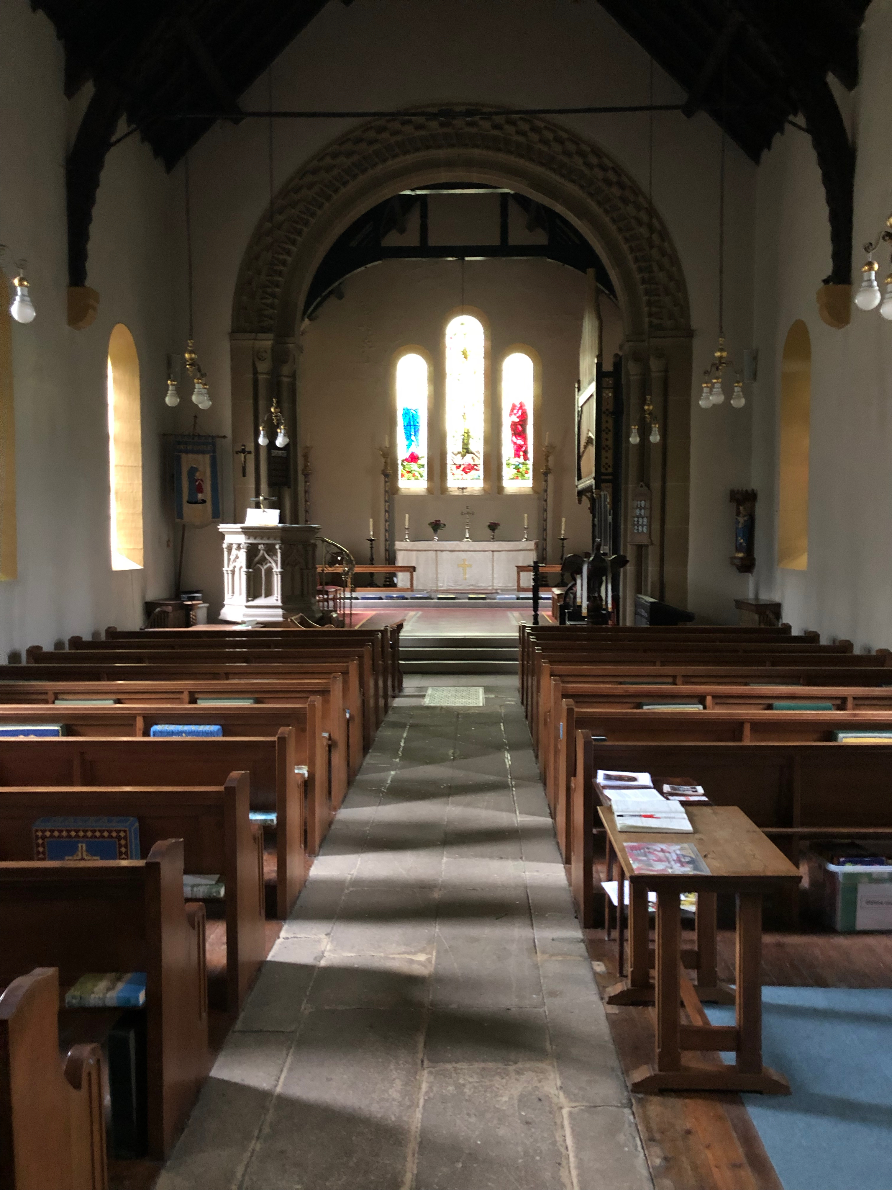 The interior of St Mary the Virgin Church, Cross Green, South Darley, Darley Bridge. Photo was taken in June 2019